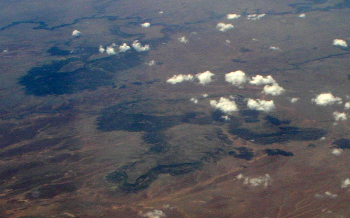 Oblique air photo of West (foreground) and East (background left) Sunset Mountains — in Coconino County, Arizona. Facing southeast, 2007.